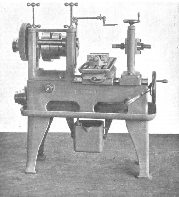 A typical example of the class of milling machines known as the Lincoln miller. This example was made by Pratt & Whitney of Hartford, Connecticut, USA. It probably dates to sometime in the 1870s or 1880s.